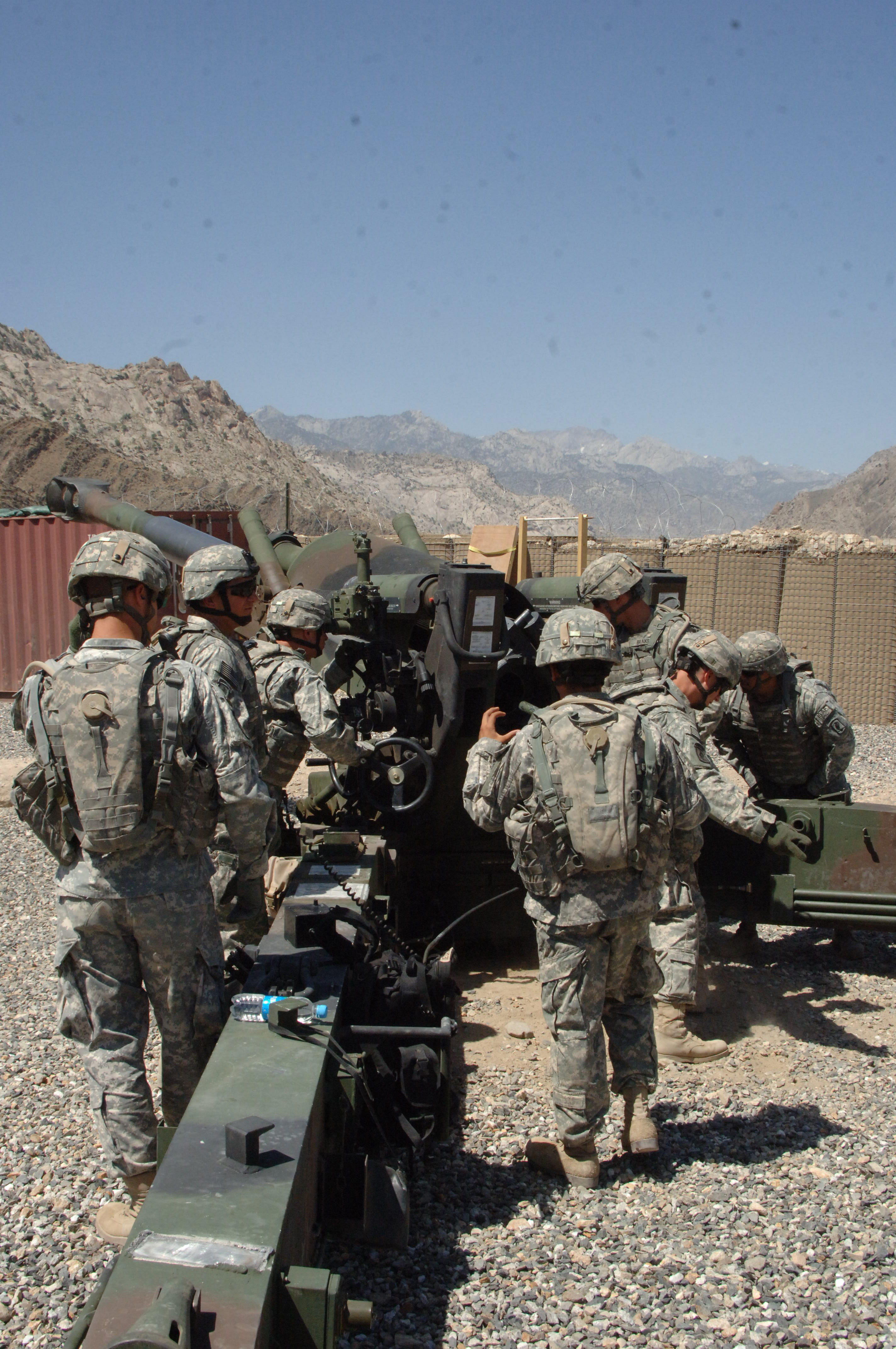 The following is the author's description of the photograph quoted directly from the photograph's Flickr page. "On 6/14/2007 soldiers from 1st Howitzer, A Battery, 4/319th Airborne Field Artillery Regiment, 173rd Airborne Brigade Combat Team, conduct crew drills before firing their M198 155mm howitzer on Forward Operating Base Kalagush, in Nuristan Province, Afghanistan. U.S. Army Photo: SSG Isaac A. Graham, 982D COM CAM CO (ABN) (Photo cleared for public release by Maj. Donald Korpi, HHC 4th BCT, 82nd ABN DIV) "